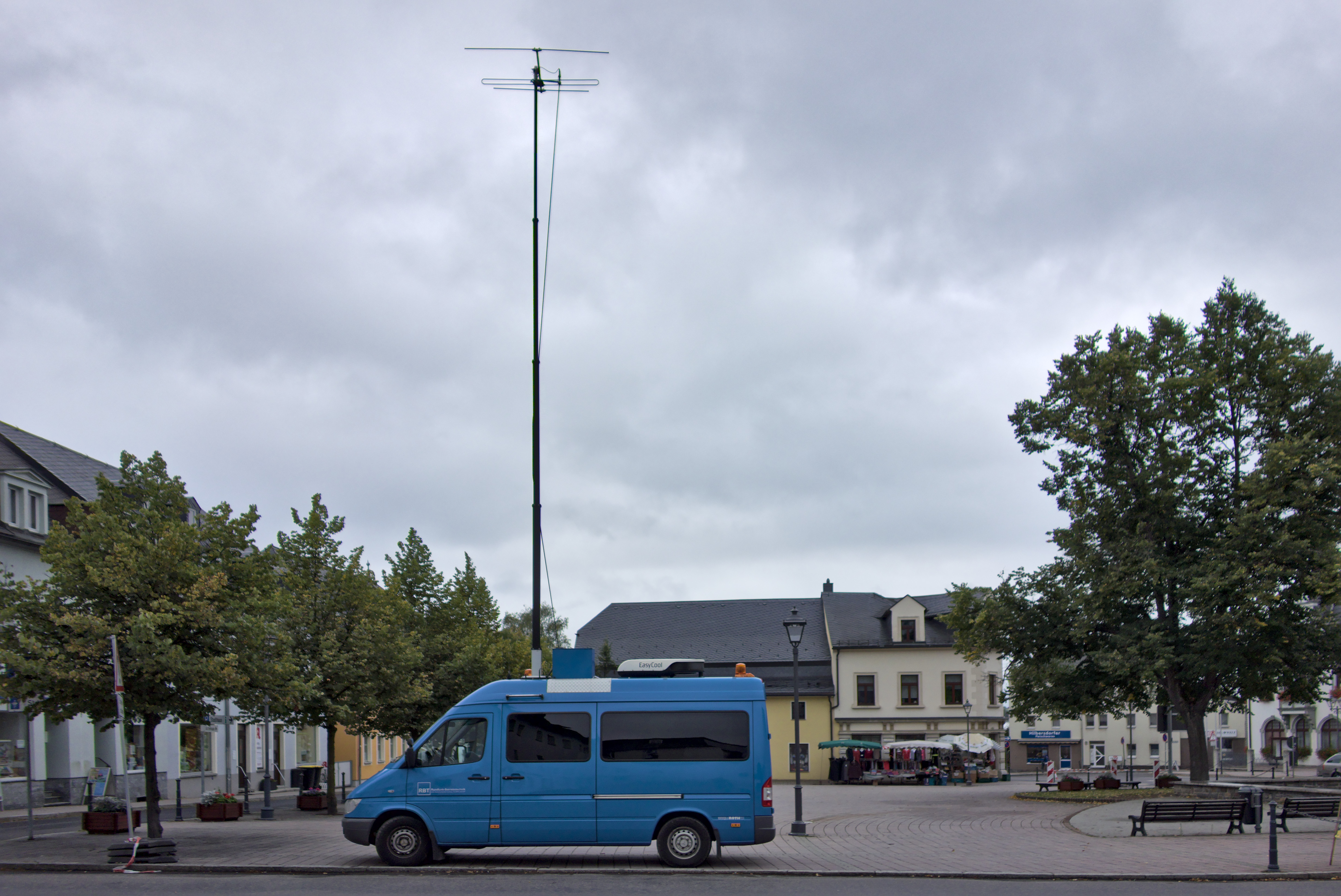 Mercedes-Benz Sprinter as radio monitoring car of the German RBT GmbH